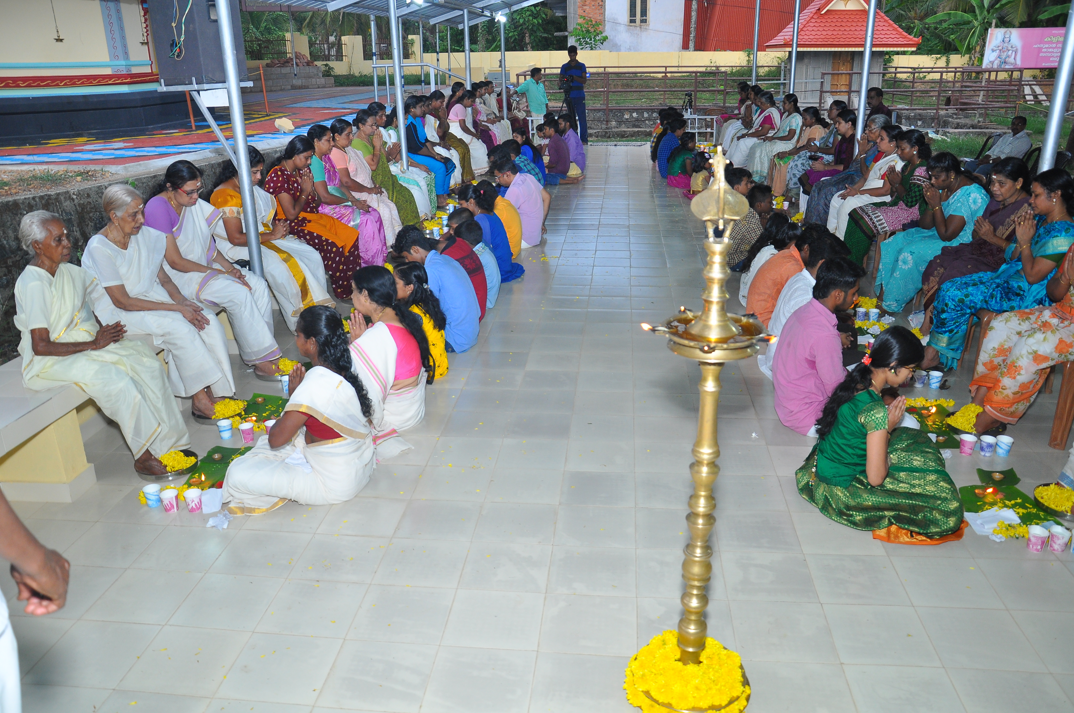 Mathru pooja in temple